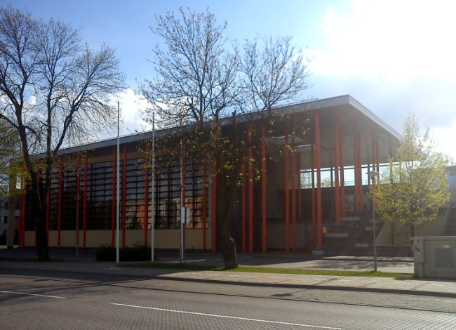 Sports Hall "Centre"